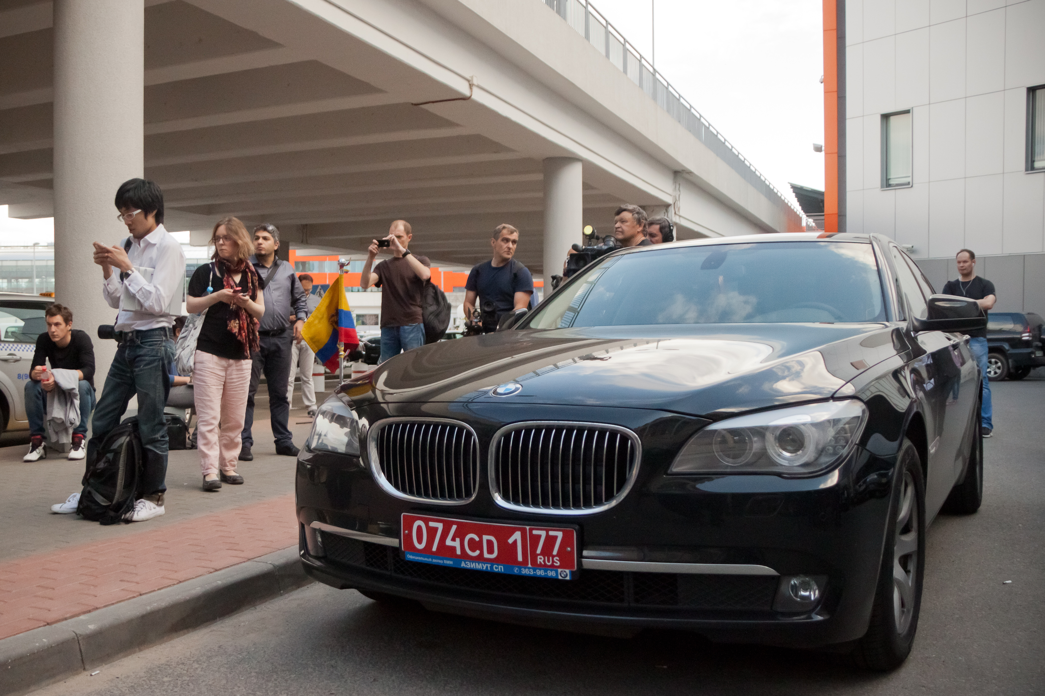 Ecuador embassy car in front of Sheremetyevo Airport in Moscow on June 23, 2013 around the arrival of Edward Snowden.